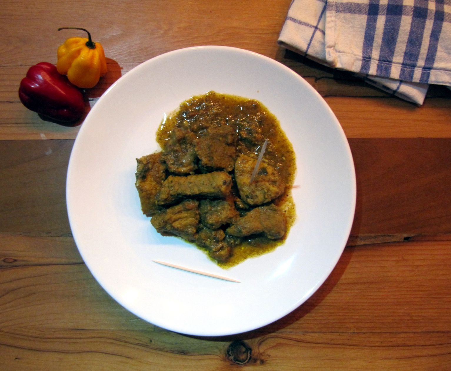 "Geera pork": Tiny, complimentary snack served in bars in Trinidad to stimulate the guests' thirst.